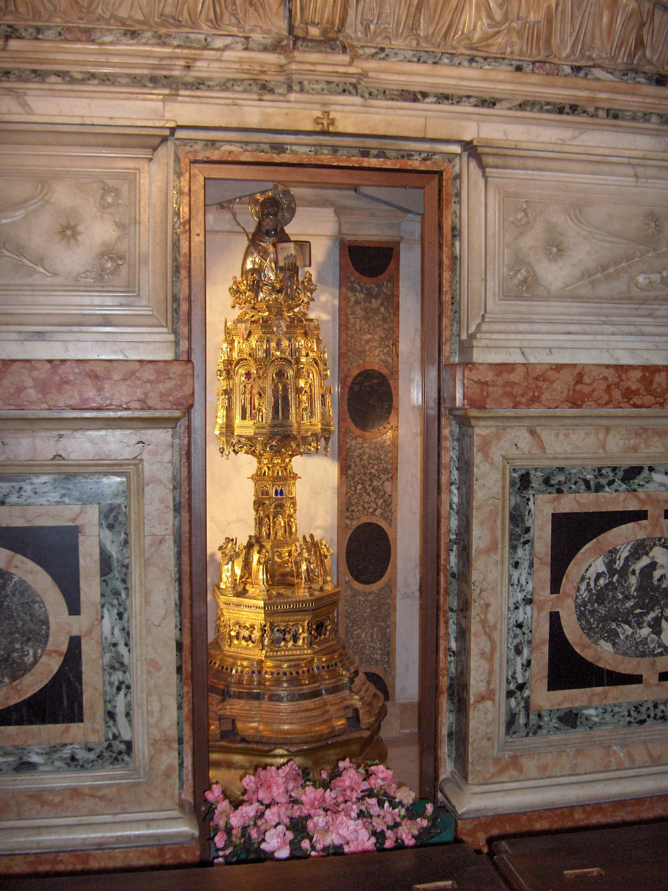 Golden reliquary with the head of Saint Dominic (1383) by Jacopo Roseto (detail); Ark of Saint Dominic, Basilica of Saint Dominic, Bologna, Italy